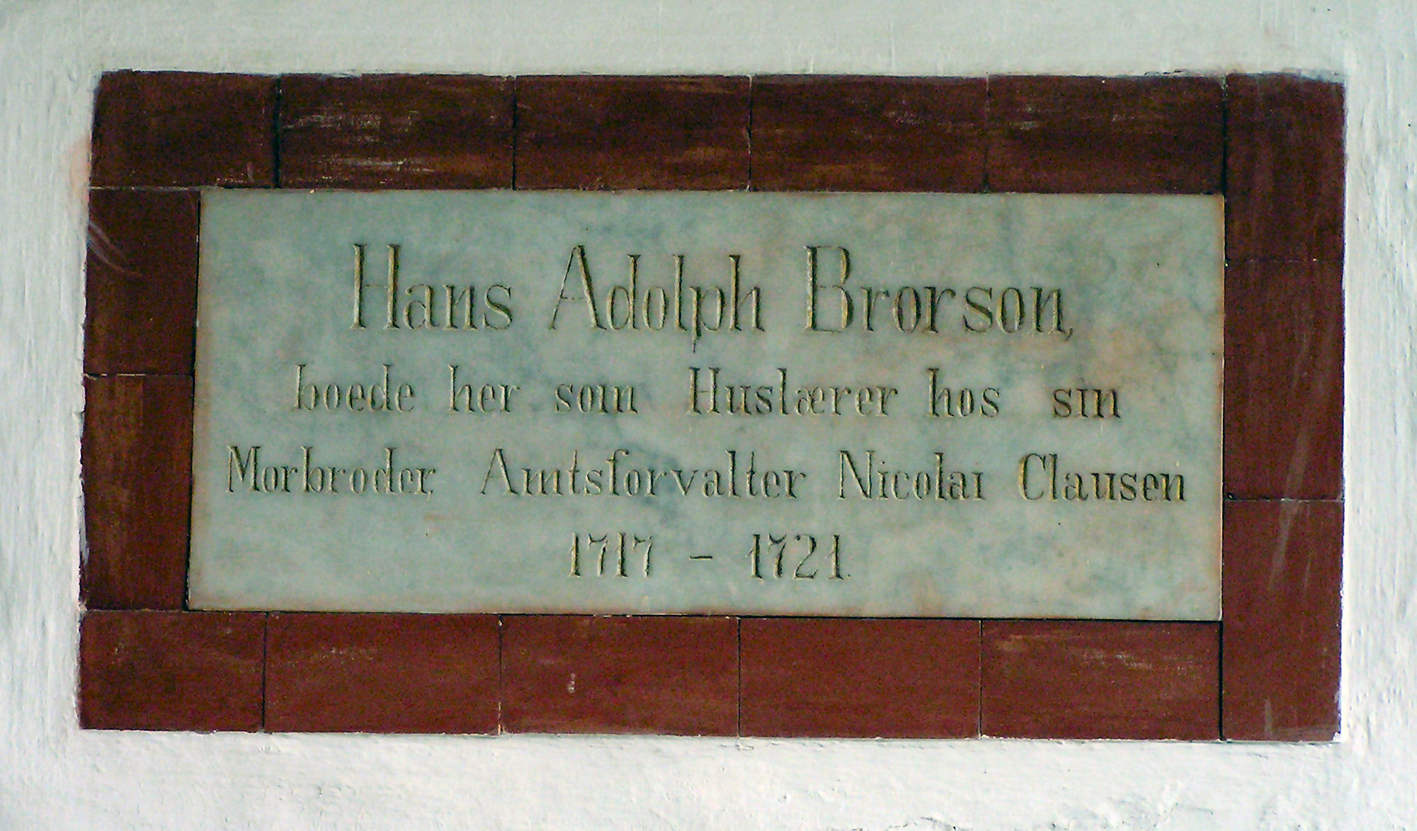 Memorial for Hans Adolph Brorson; LøgumklosterDansk: Mindeplade i Løgumkloster Slots portrum